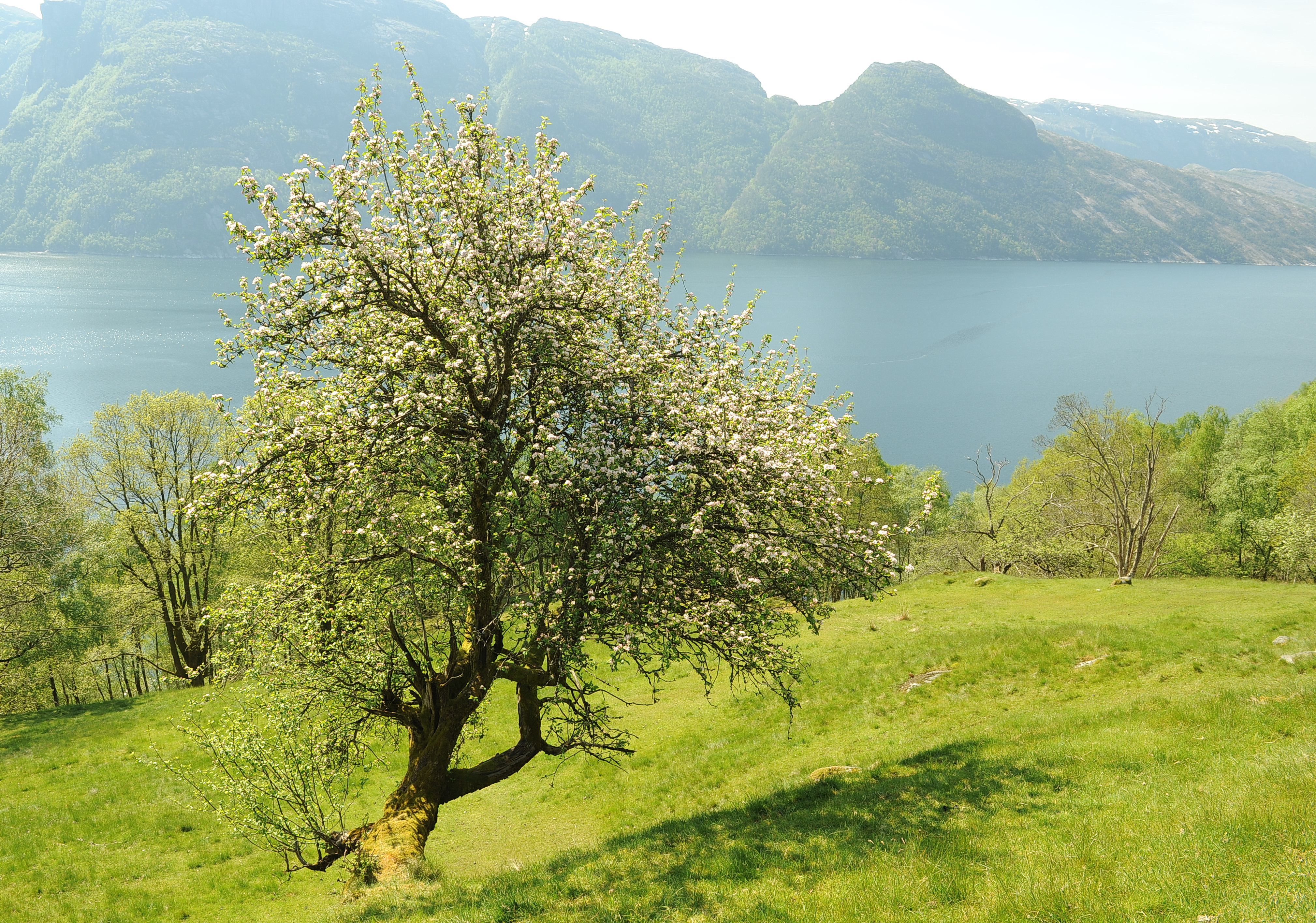 Crab apple tree (Malus sylvestris) in full bloom